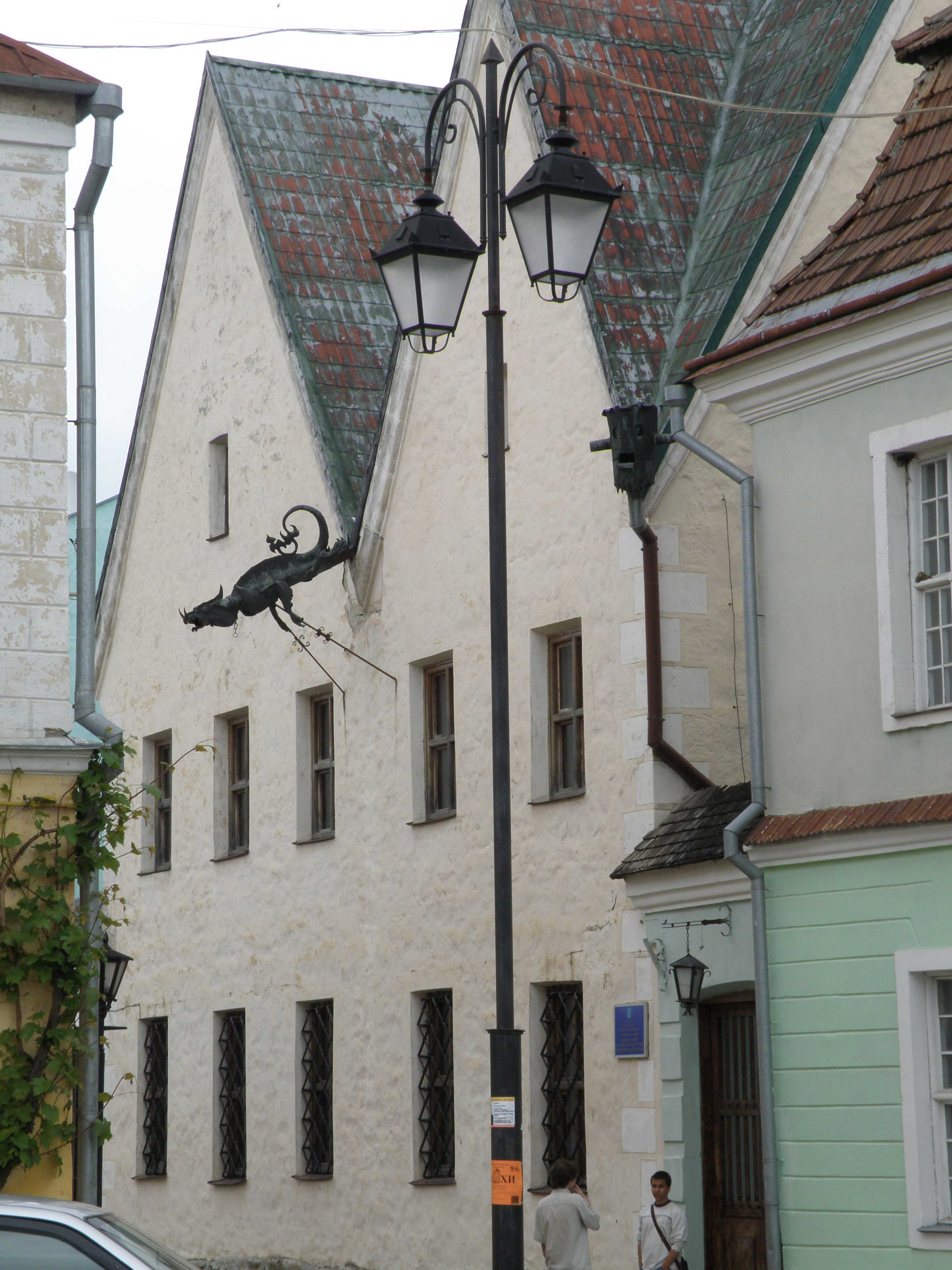 The House of the Ruthenian (Ukrainian) City Council (XVІI сentury) in Kamianets-Podilskyi, Ukraine.